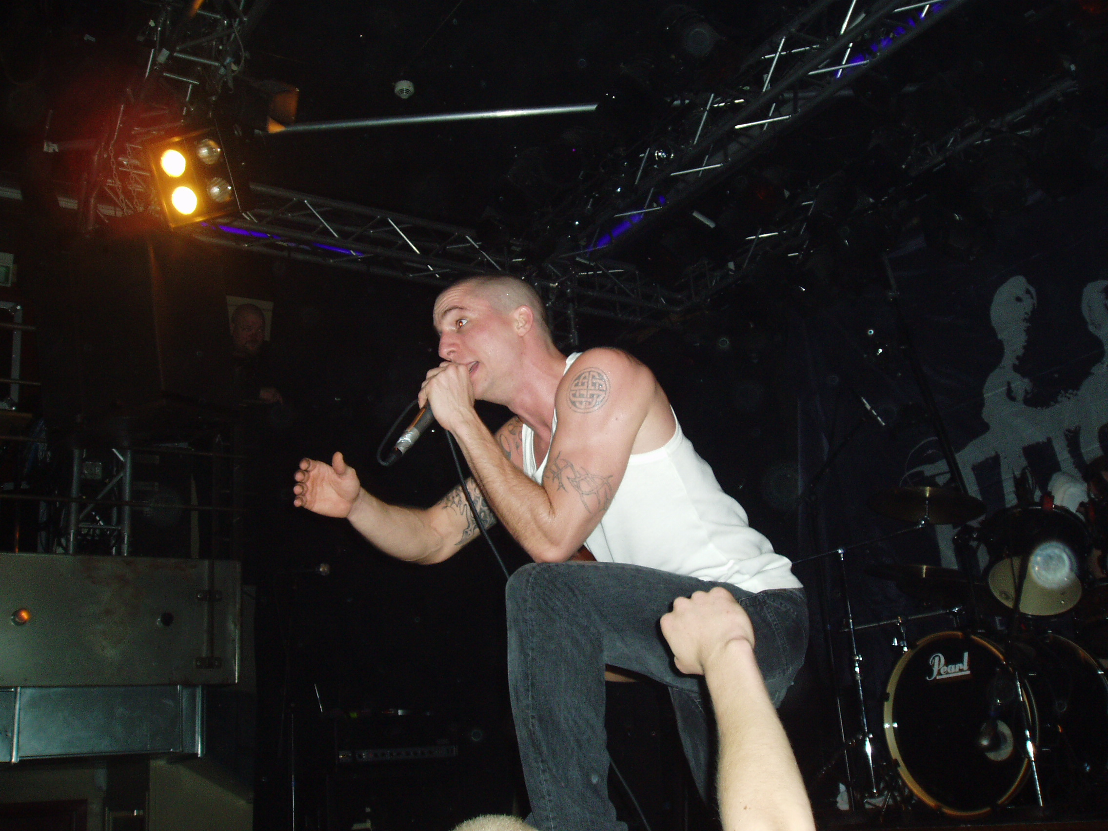 The Swedish hardcore band Raised Fist, live at Sticky Fingers, Gothenburg, Sweden. The picture includes the bands singer, Alexander